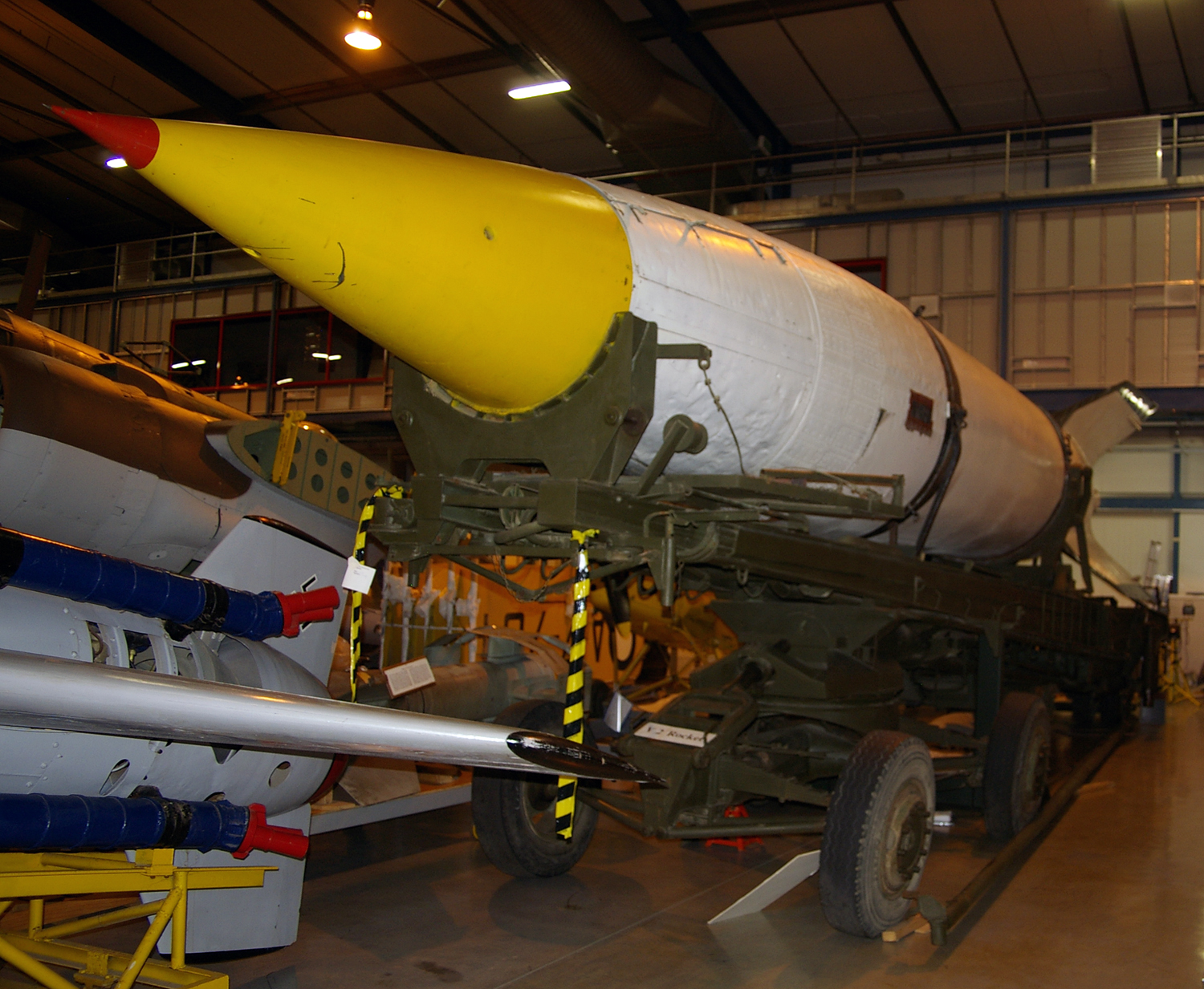 V-2 rocket located at the Australian War Memorial Treloar Centre Annex.